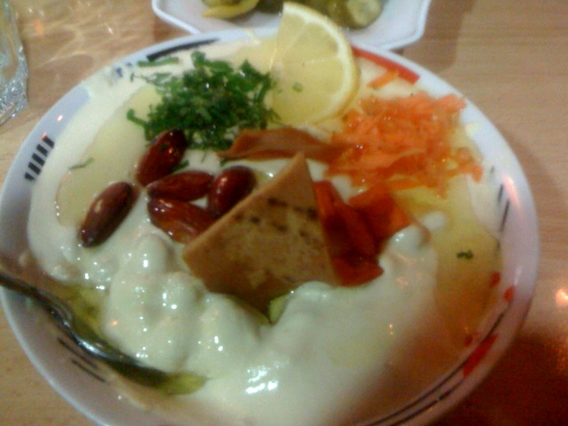 Fetté with clarified sheep butter and almonds, a specialty of Damascus.